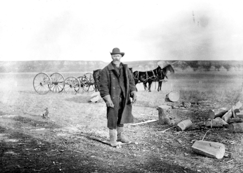 John Glenn, the first documented European to settle in the Calgary, Alberta, Canada area. He settled there in 1873 with his wife Adelaide (nee Belcourt), and built a small log cabin near the confluence of Fish Creek and the Bow River - in today's Fish Creek Provincial Park.